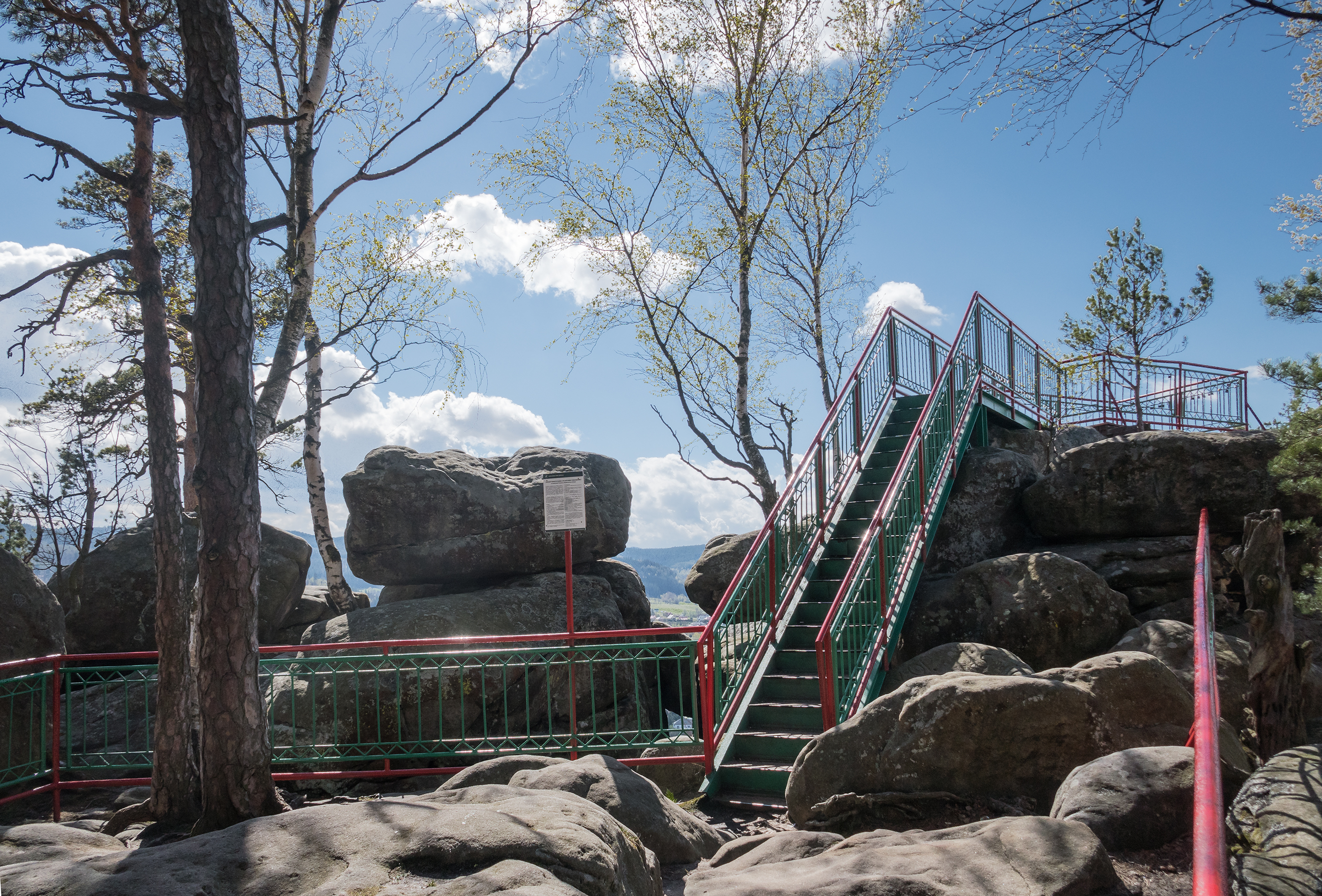 Observation deck on the Szczytnik